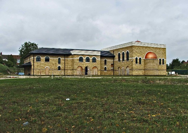 Mosque, Oakthorpe Road, Palmers Green. Mosque in Oakthorpe Road taken from Oakthorpe Road.